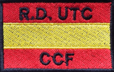 The patch that is sewn to the left arm blanking plate underneath the union flag.